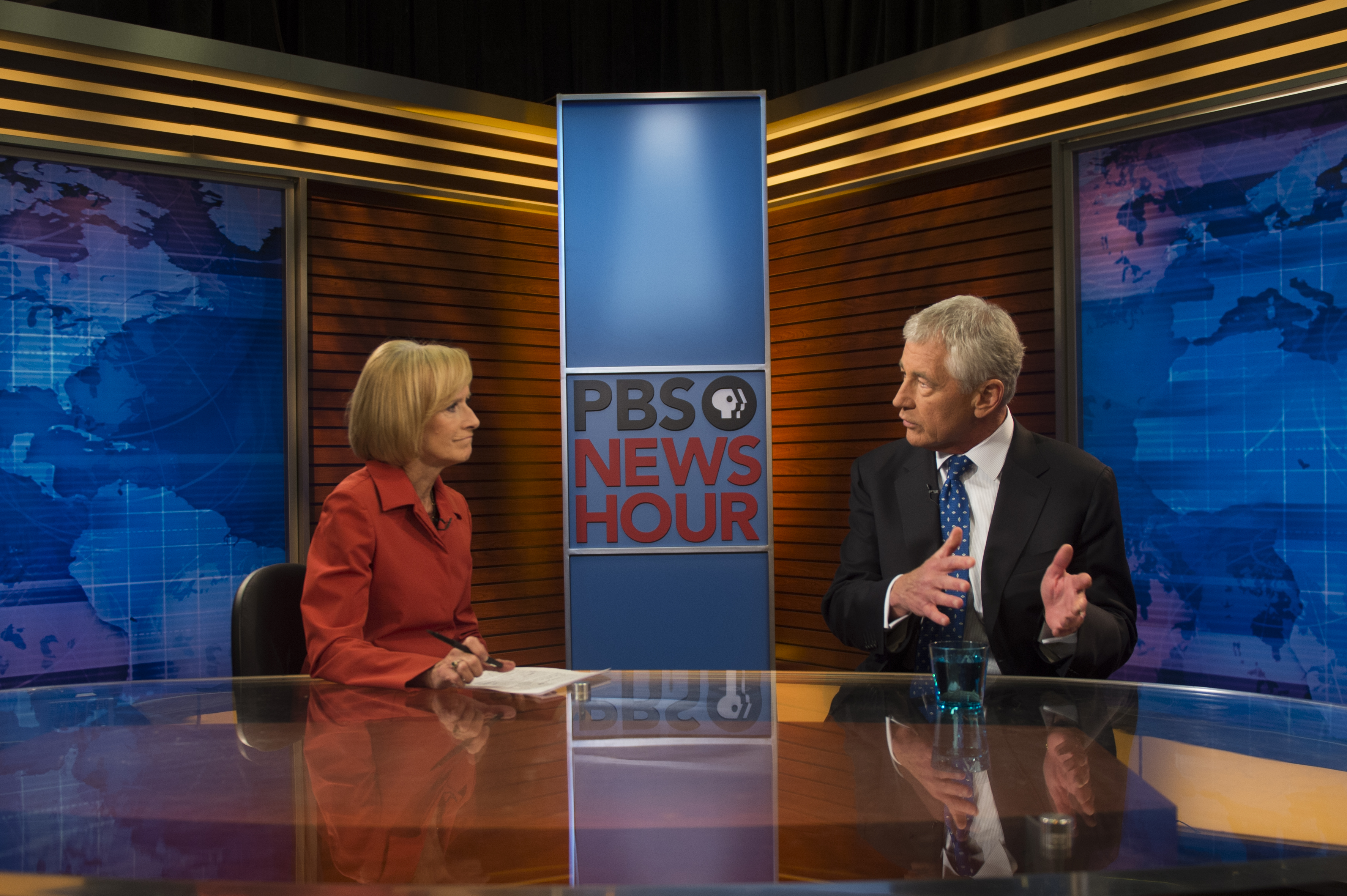 Secretary of Defense Chuck Hagel joins Judy Woodruff on the set of News Hour to discuss the reviews he has ordered in the wake of the Navy Yard shootings as well as security issues in the Middle East Sept. 18, 2013.